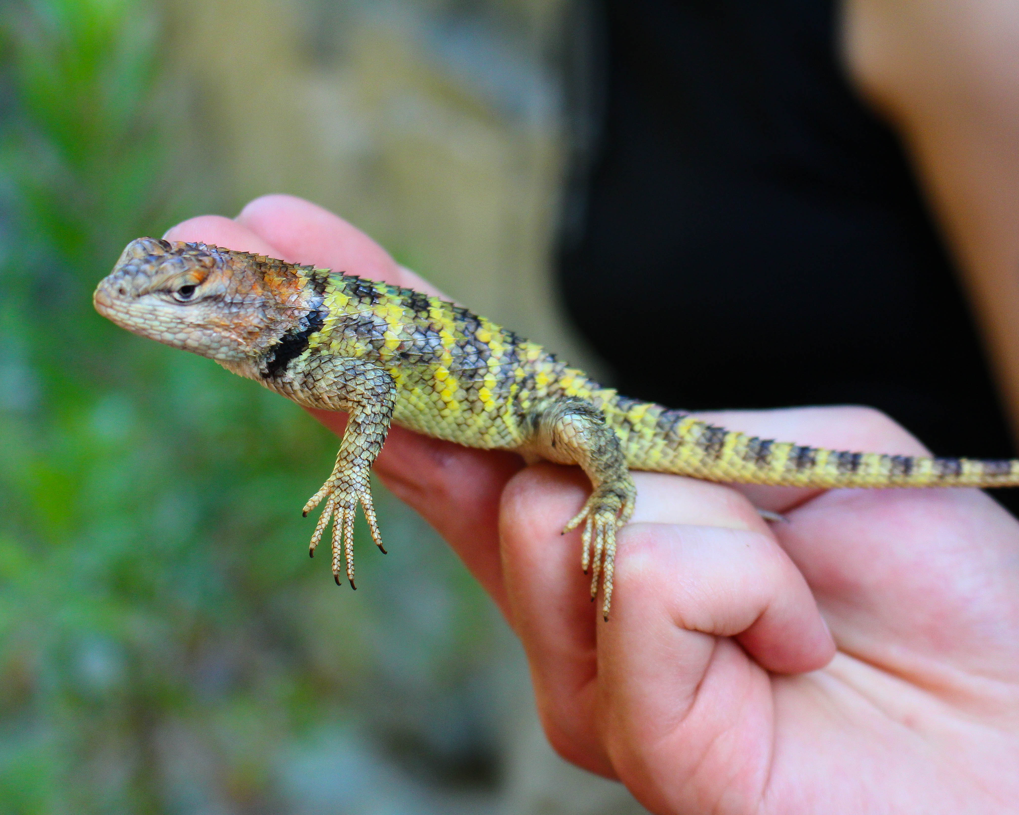 Sceloporus uniformis (breeding female). Captured by Connor Long, Inyo County CA